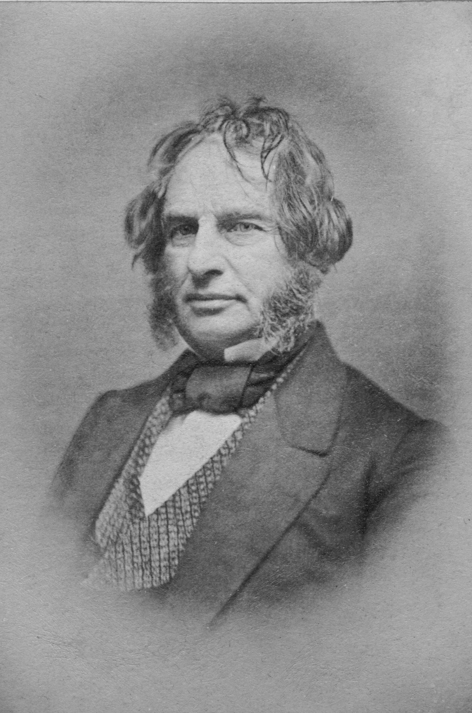 American poet Henry Wadsworth Longfellow with signature, presumably from a carte de visite.